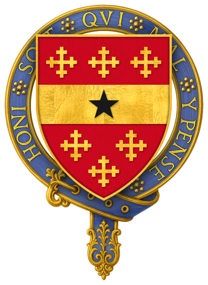 Coat of Arms of Sir John de Beauchamp, KG “ John Lord Beauchamp de Warwick…Arms: Gules, a fess between six cross-crosslets Or, a mullet for difference. ” BELTZ, George Frederick, Memorials of the Order of the Garter from Its Foundation to the Present Time, London: William Pickering, 1841.